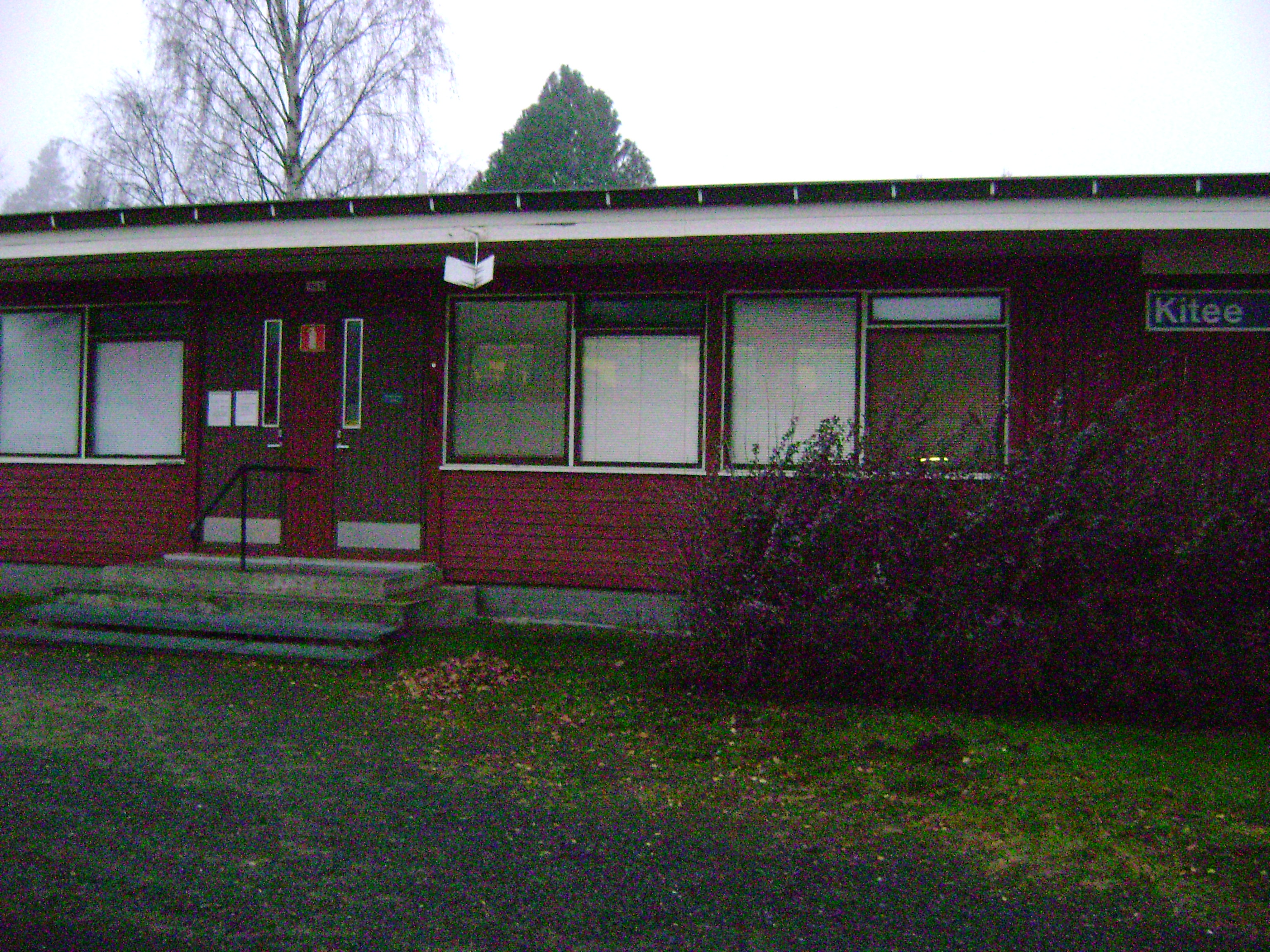 Kitee railway station in Tolosenmäki, Kitee, Finland